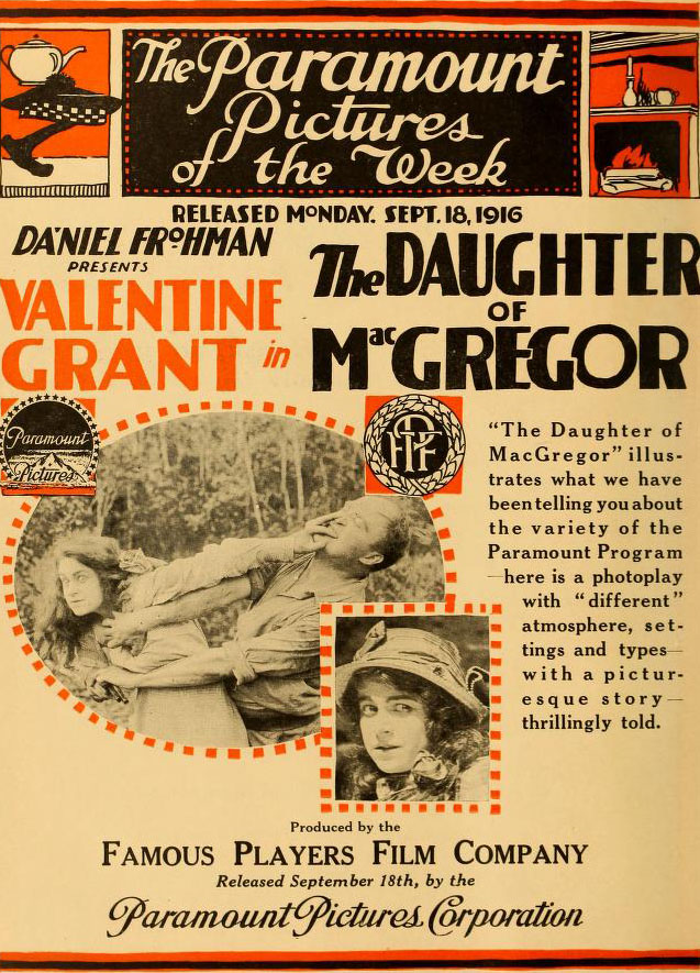 Advertisement in Moving Picture World for the American film The Daughter of MacGregor (1916).